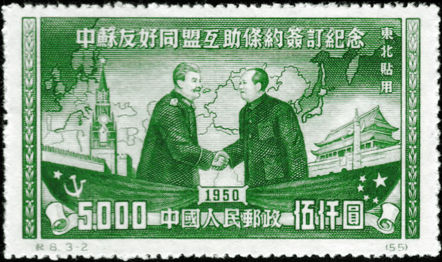 Chinese Stamp, 1950. Joseph Stalin and Mao Zedong are shaking hands. Scott #?